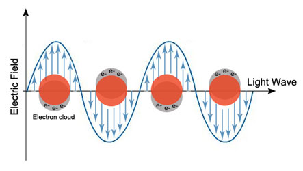 LSPR in gold nanoparticles